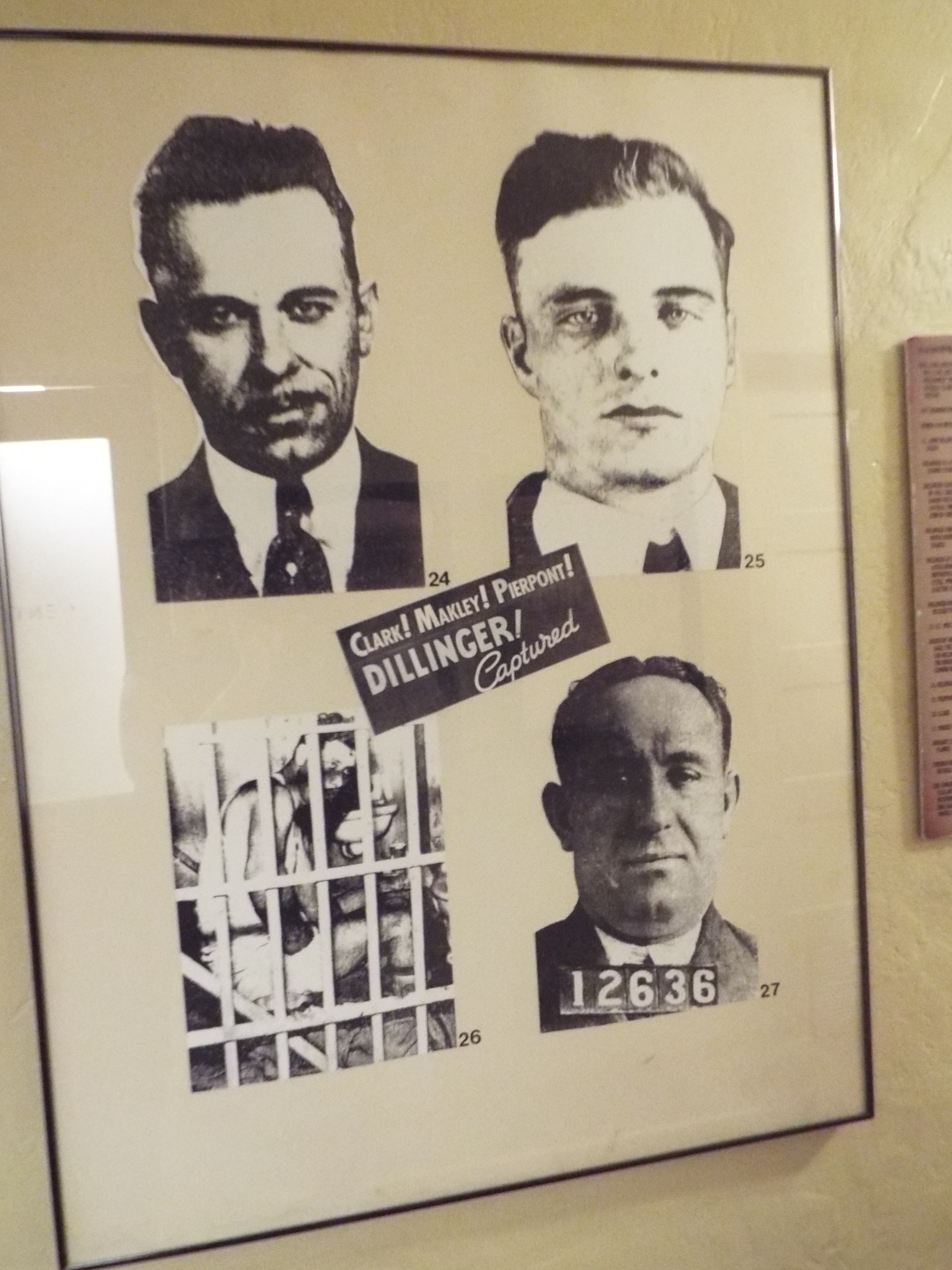 Poster of John Dillinger and two gang members in the hallway Inside the Historic Hotel Congress built in 1919 and located in Tucson, Arizona